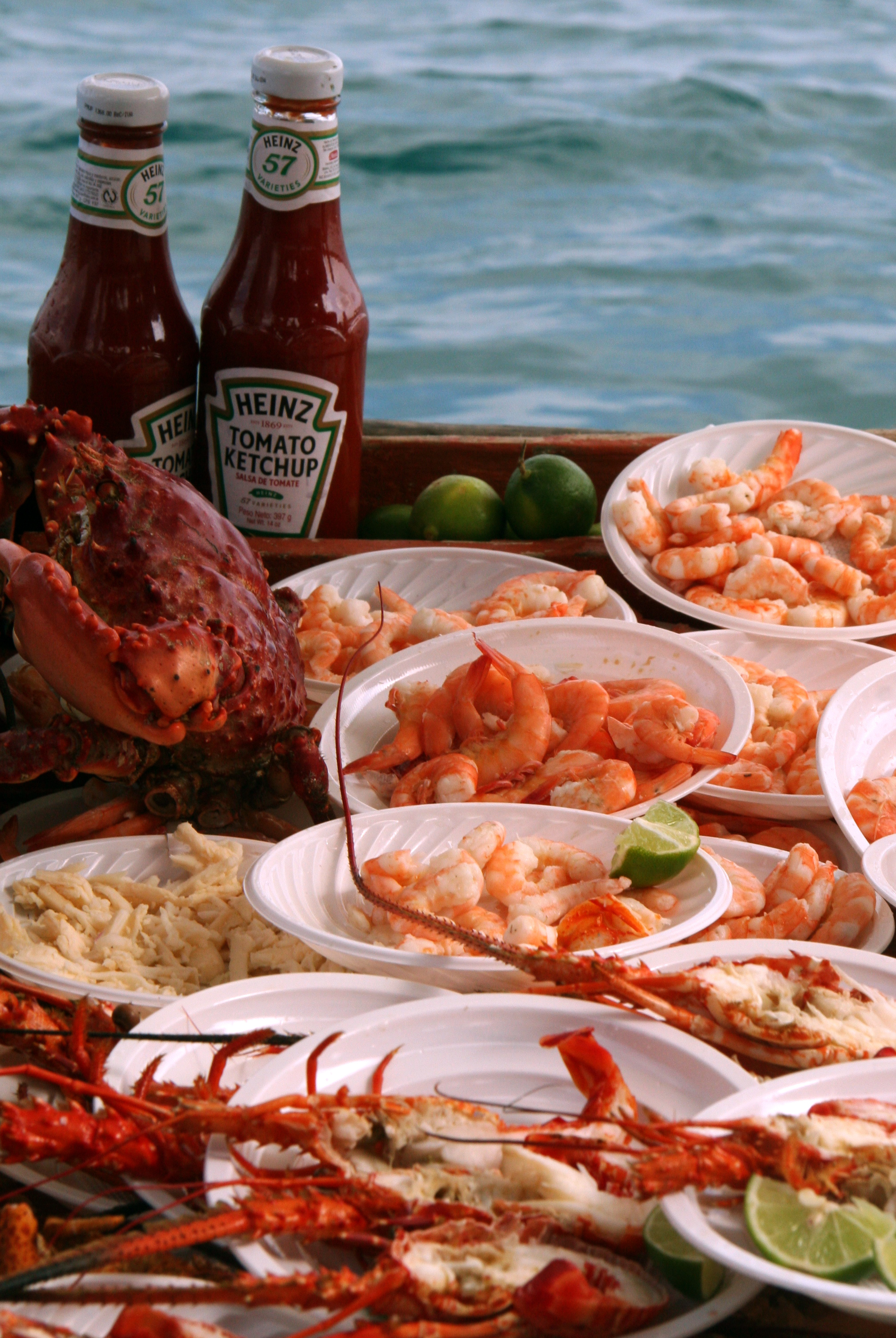 Ingredients for a seaside prawn coctail in Carthagena de Indias